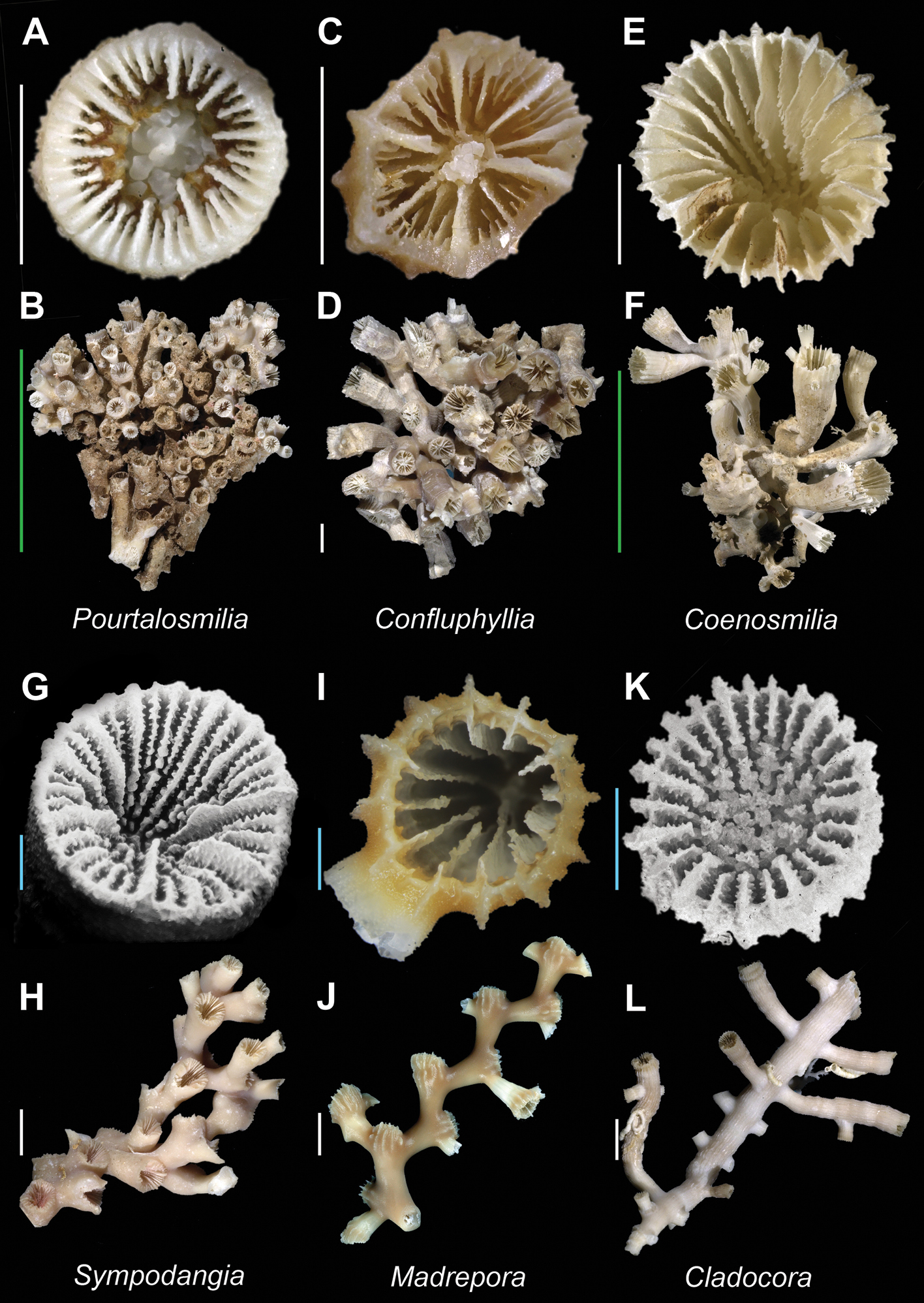 Pourtalosmilia anthophyllitesA (USNM 1174947) and B (USNM 117494): Calicular and colony view respectively; Confluphyllia juncta (USNM 97316, paratype) C and D Calicular and colony view respectively; Coenosmilia arbuscula(USNM 97312) E and F Calicular and colony view respectively; Sympodangia albatrossi (USNM 97308, holotype) G (SEM) and H Calicular and colony view respectively; Madrepora oculata (MNHN uncatalogued, Halipro 2 stn. BT104) I and J Calicular and colony view respectively; Cladocora debilis K (USNM 10452, SEM) and L (USNM 62351): Calicular and colony view respectively. Scale bars: blue = 1 mm; white = 5 mm; green = 50 mm. Bold face indicates type species for the genus.